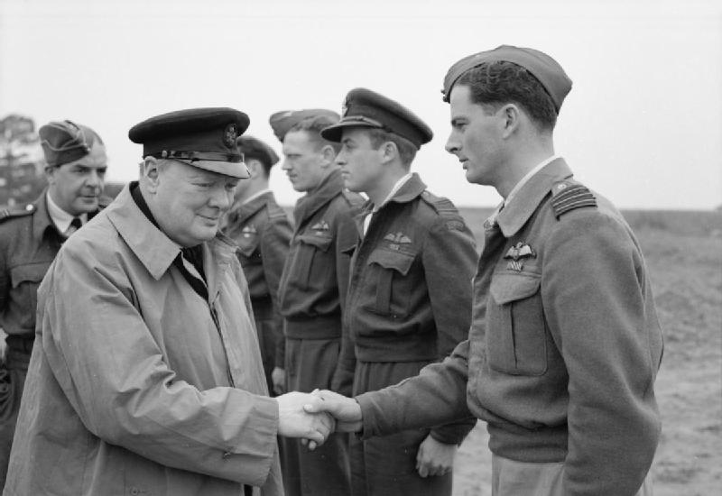 Royal Air Force- 2nd Tactical Air Force, 1943-1945. On arriving in Normandy, the Prime Minister, Winston Churchill, shakes hands with Wing Commander M T Judd, leader of No. 143 (Canadian) Wing, among a line of pilots assembled to meet him at B2/Bazenville. On the extreme left stands Air Vice Marshal H Broadhurst, the Air Officer Commanding No. 83 Group.